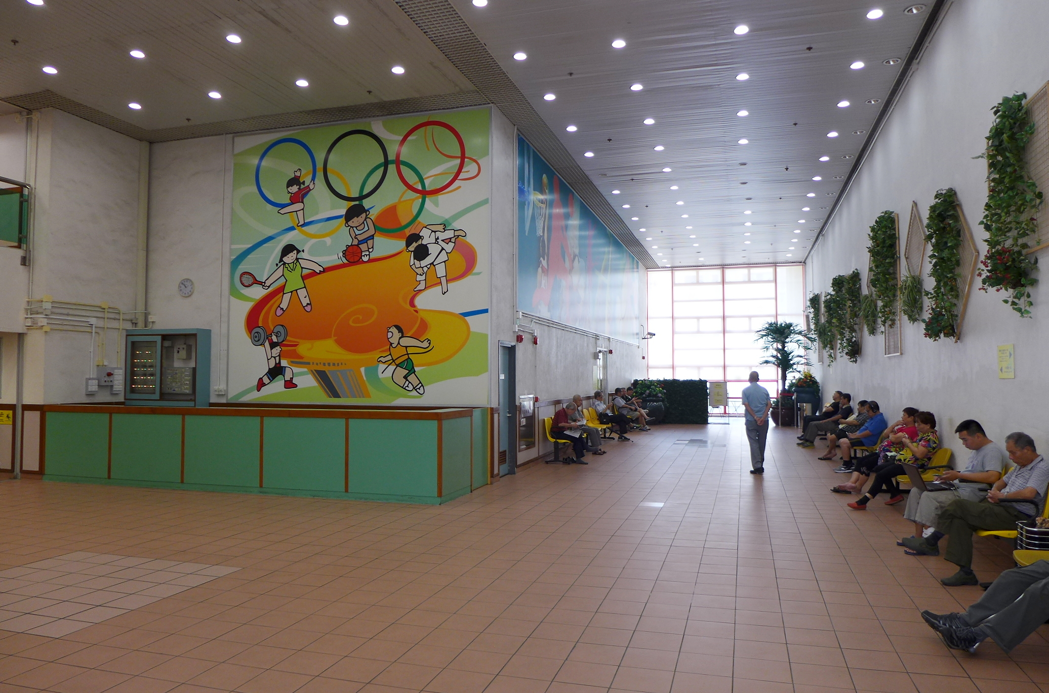 Pei Ho Street Sports Centre